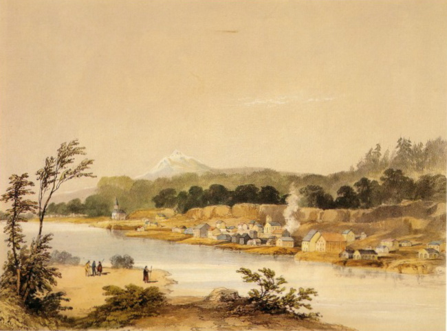 Oregon City, Oregon in 1845, by Henry James Warre.